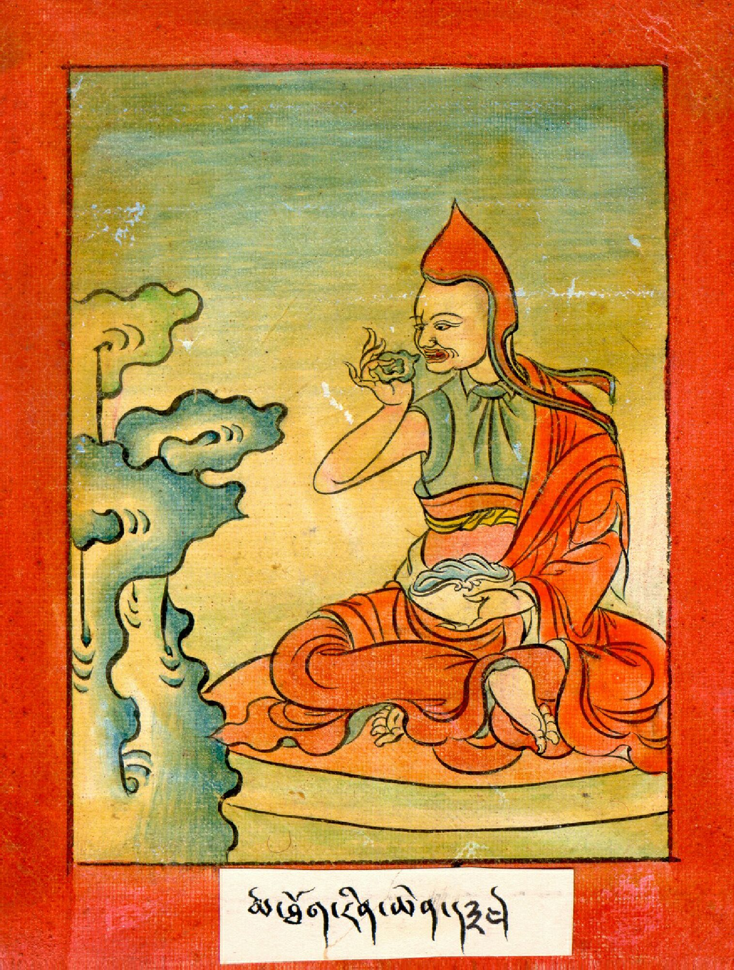 Ma Rinchen Chok, 8th century. Disciple of Padmasambhaba